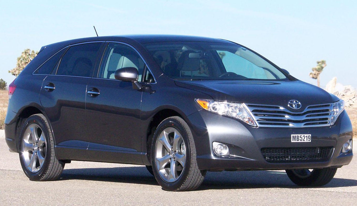 2011 Toyota Venza photographed in USA.